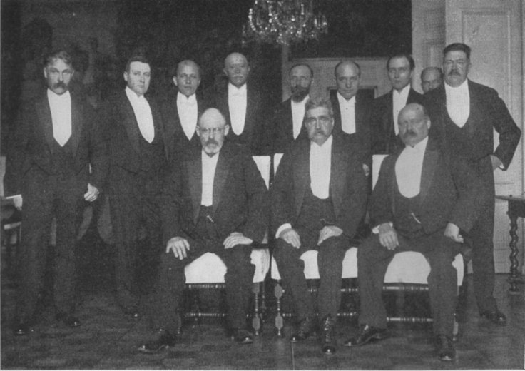 Second cabinet of Hjalmar Branting 1921-1923